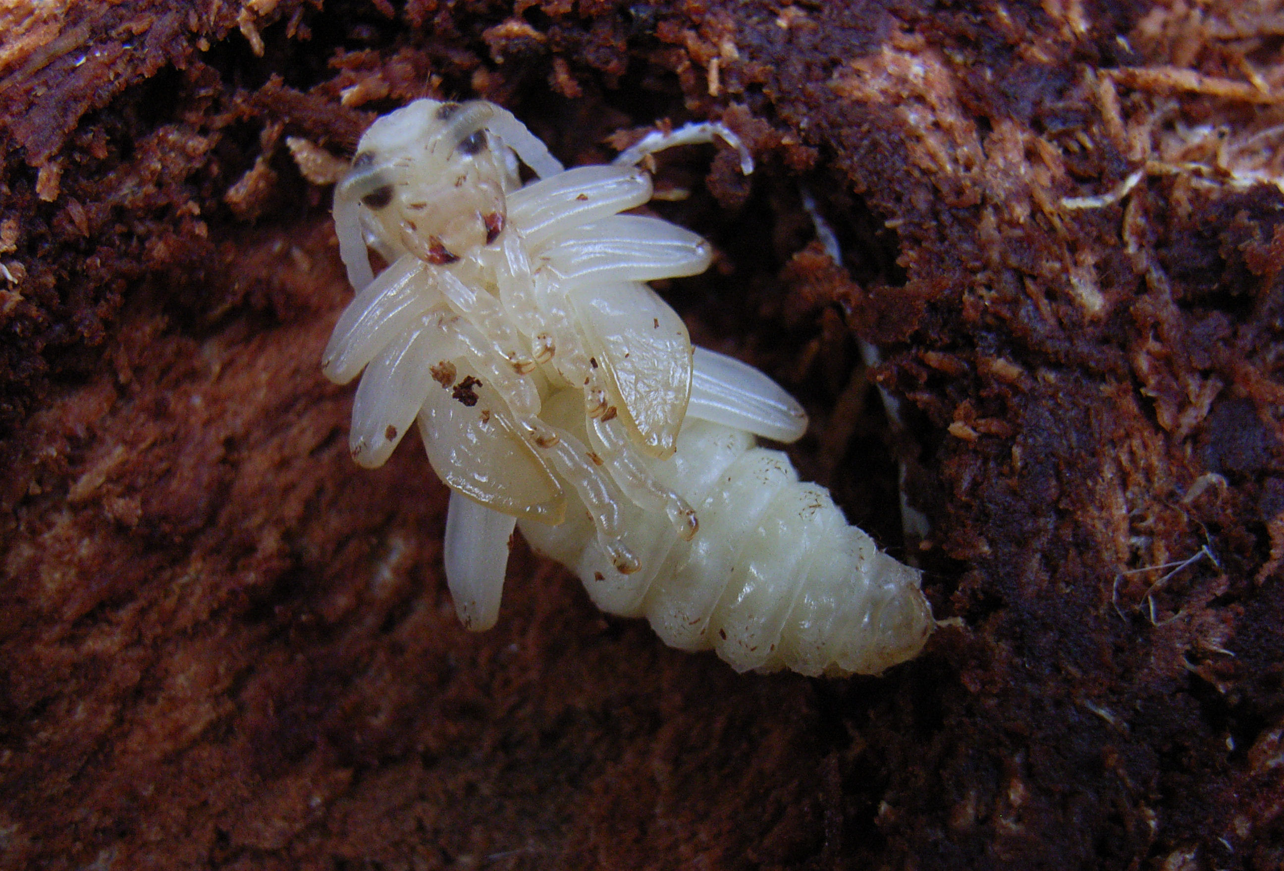 Pupa of Rhagium mordax in Abies alba in Southern Germany 700m